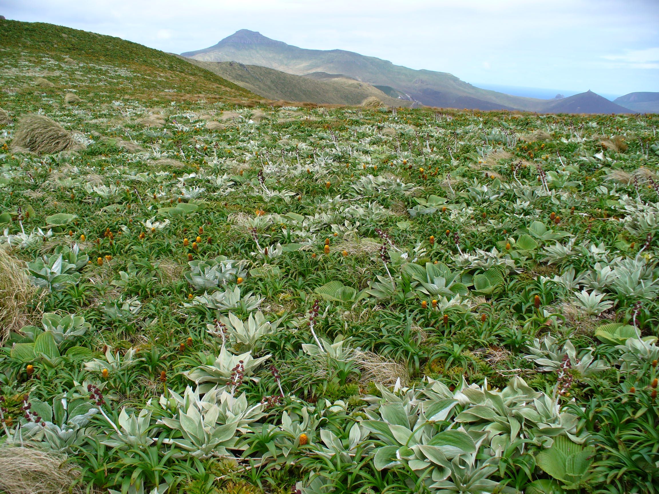 Campbell Island, New Zealand, one of the sub-antarctic islands of New Zealand, with a community of megaherbs in the foreground